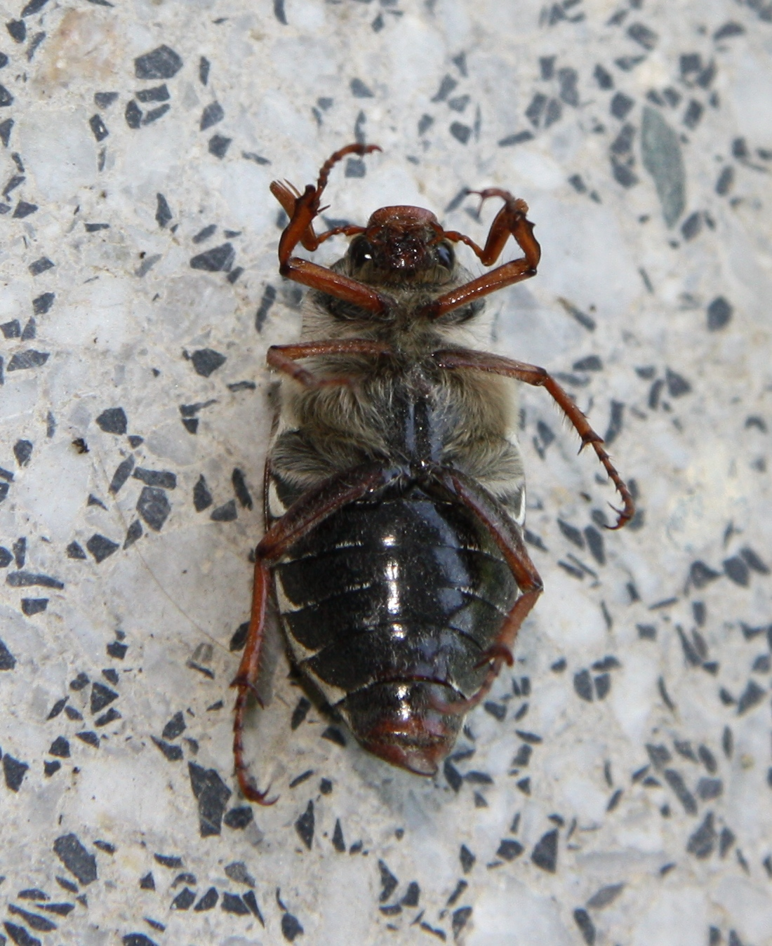 Melolontha